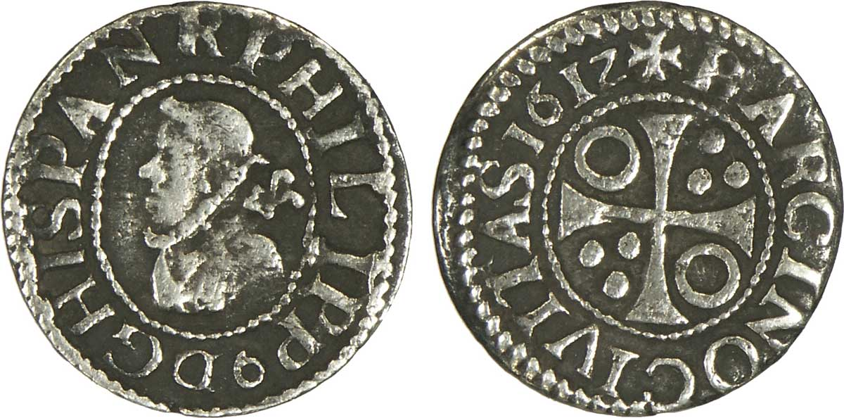 un demi Real à l'effigie de Philippe III, 1617